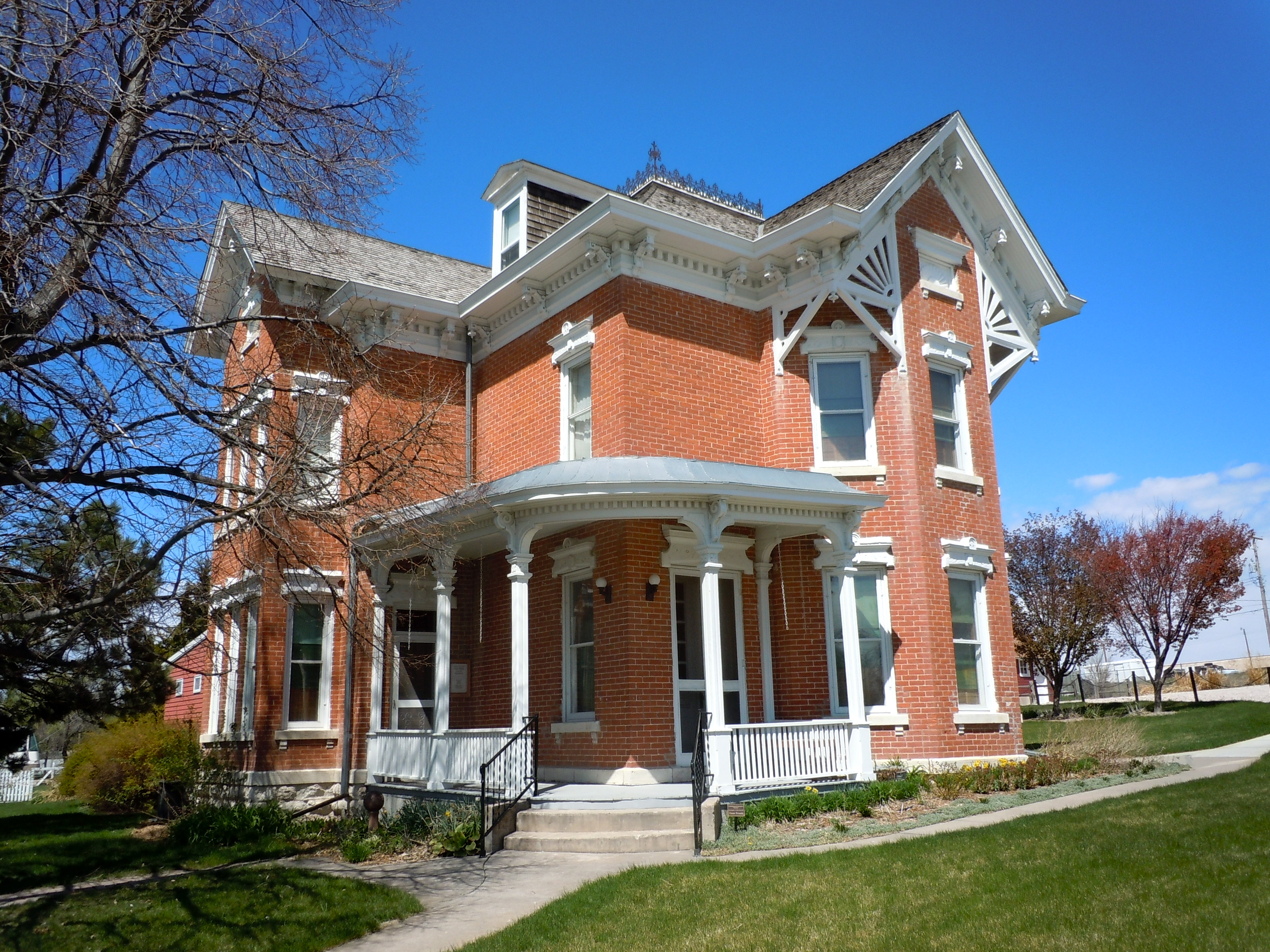 Leonidas A. Brandhoefer Mansion on the NRHP since October 3, 1973. At 10th and Spruce Sts., Ogallala, Keith County, Nebraska